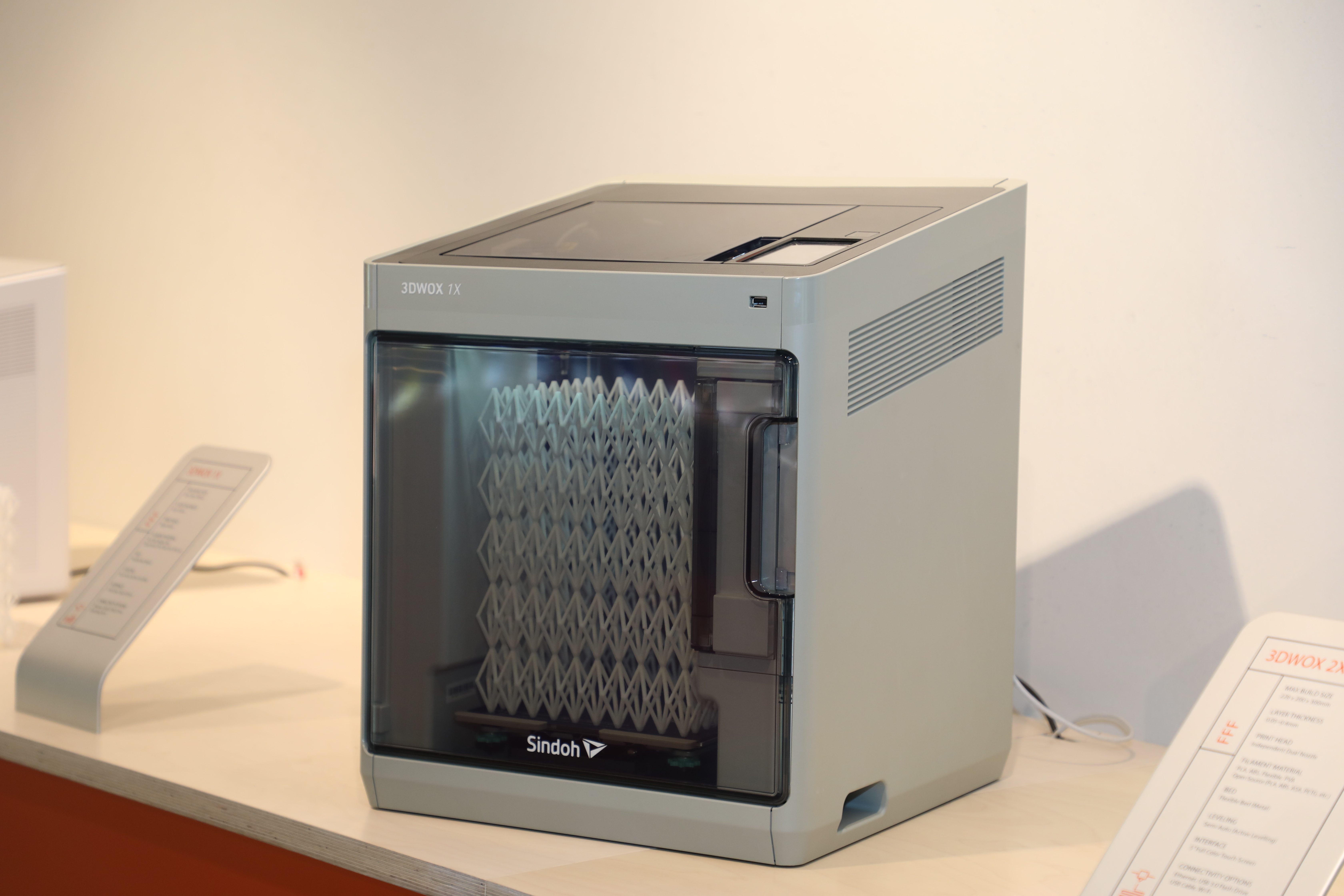 It is sindoh's 3D printer